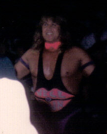 Steven Dunn at a WWF event in 1994